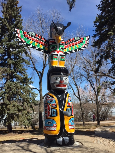 Totem Pole in Wascana Park, Regina, Saskatchewan